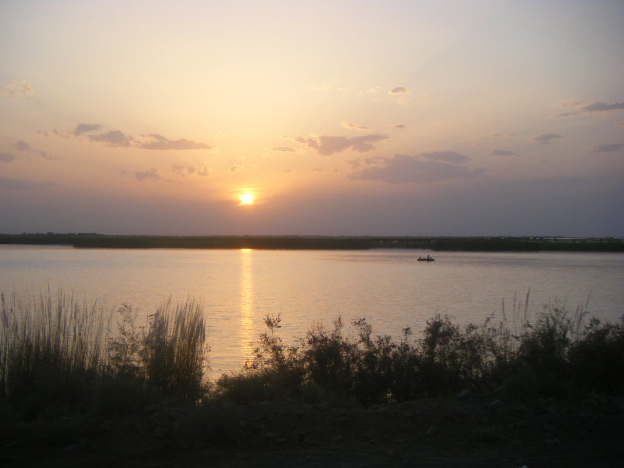 Amu Darya in Turkmenistan